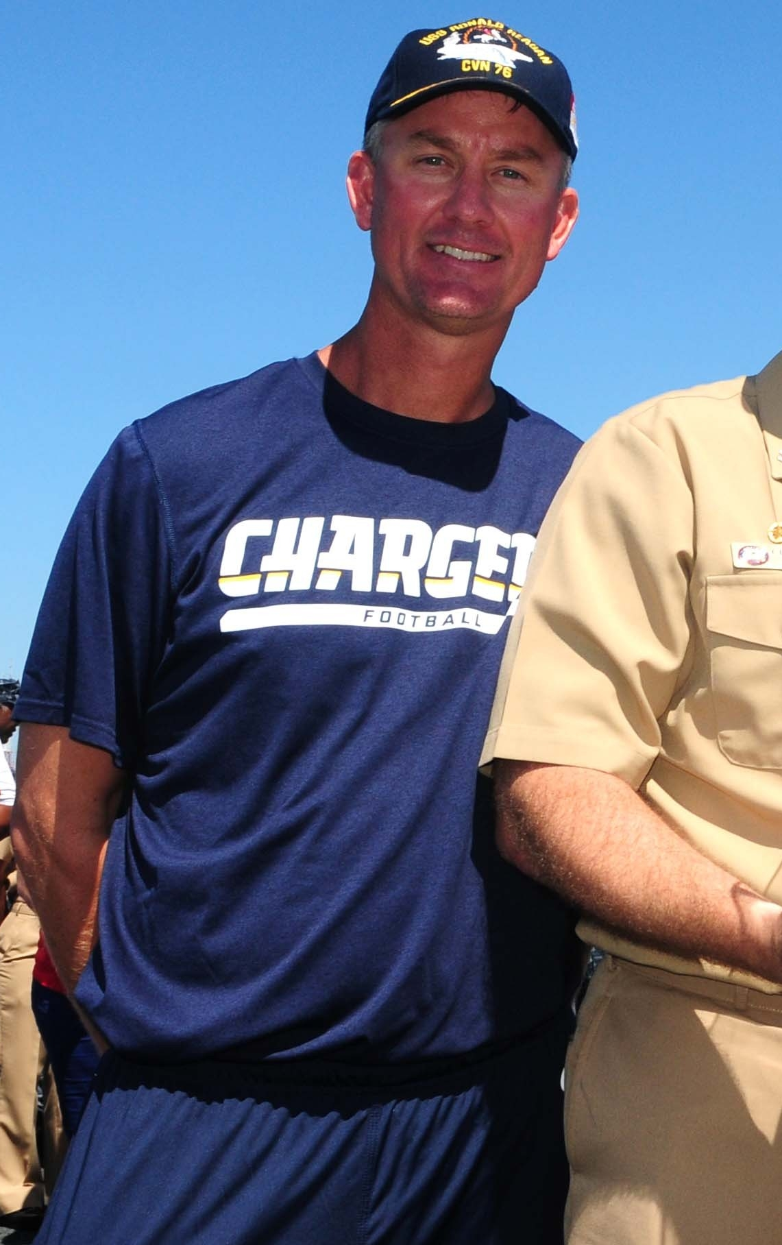 San Diego coach Mike McCoy, 2013